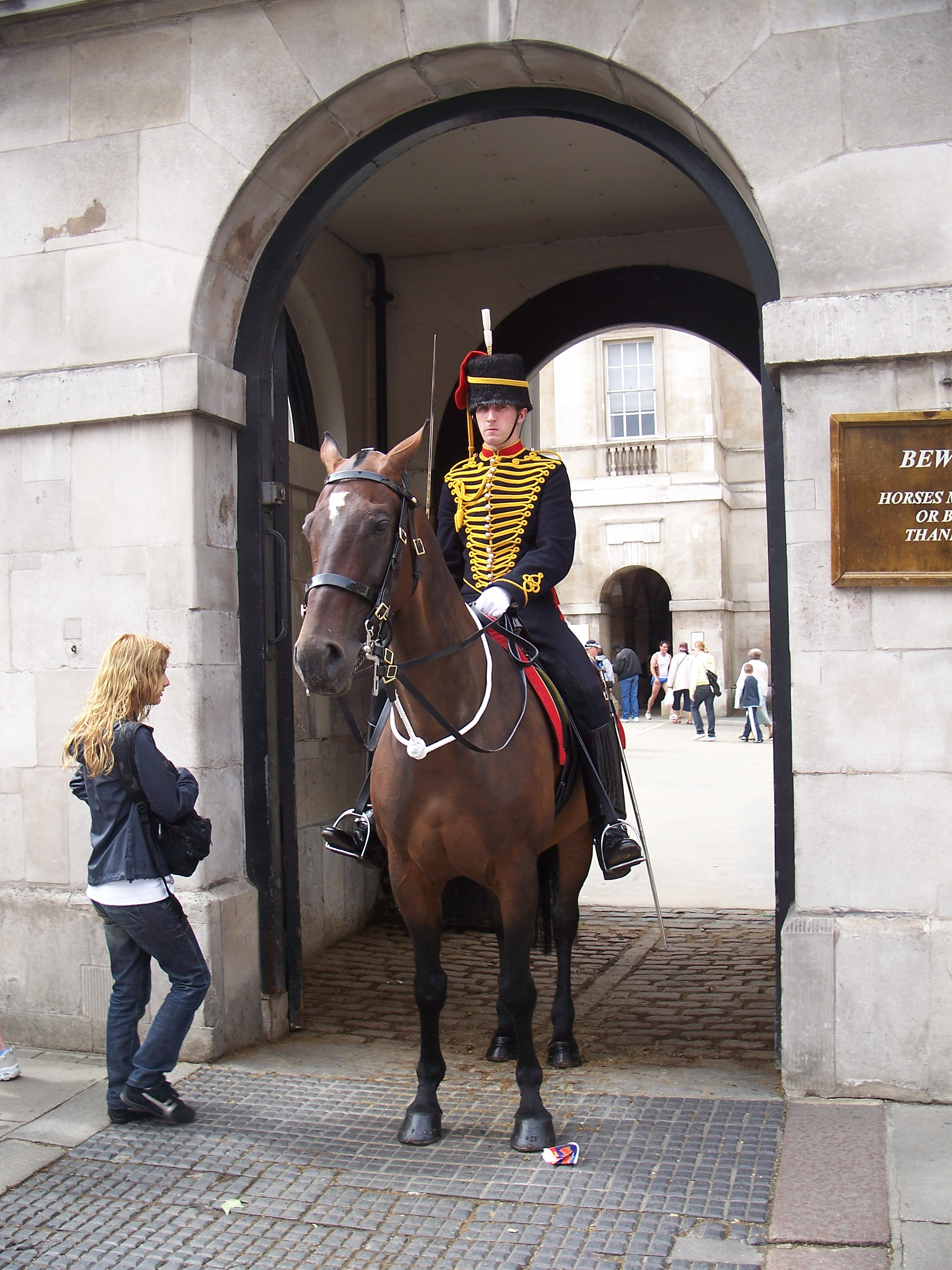 A guard of the King's Troop, Royal Horse Artillery at Horse Guards, Westminster, London